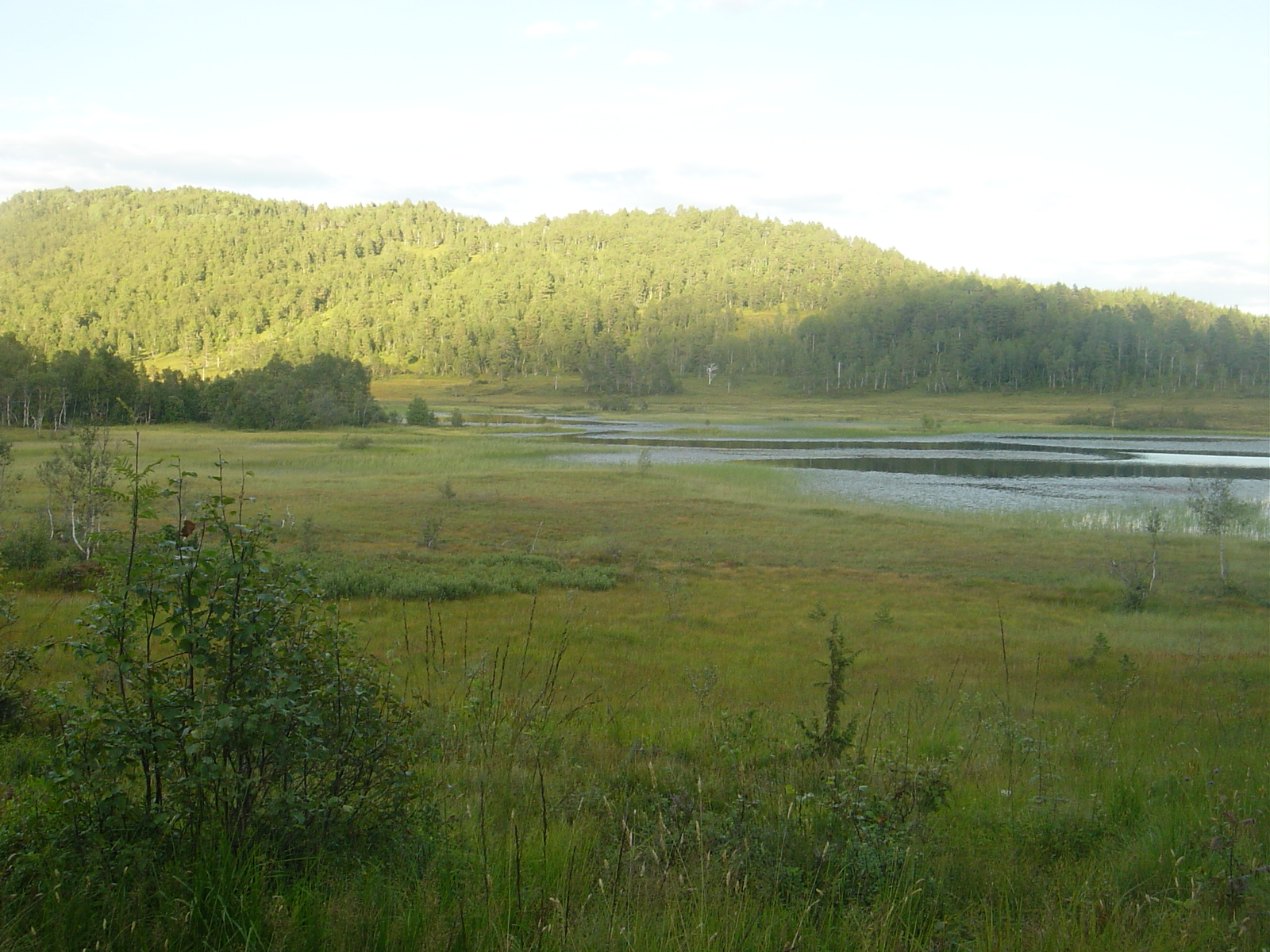 Gjemnes and the Fursetfjellet, with Stangarvatnet